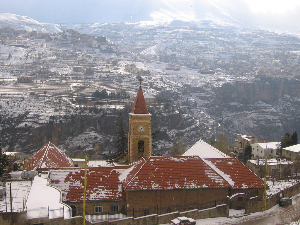 On The top of the high Cedars in Lebanon...